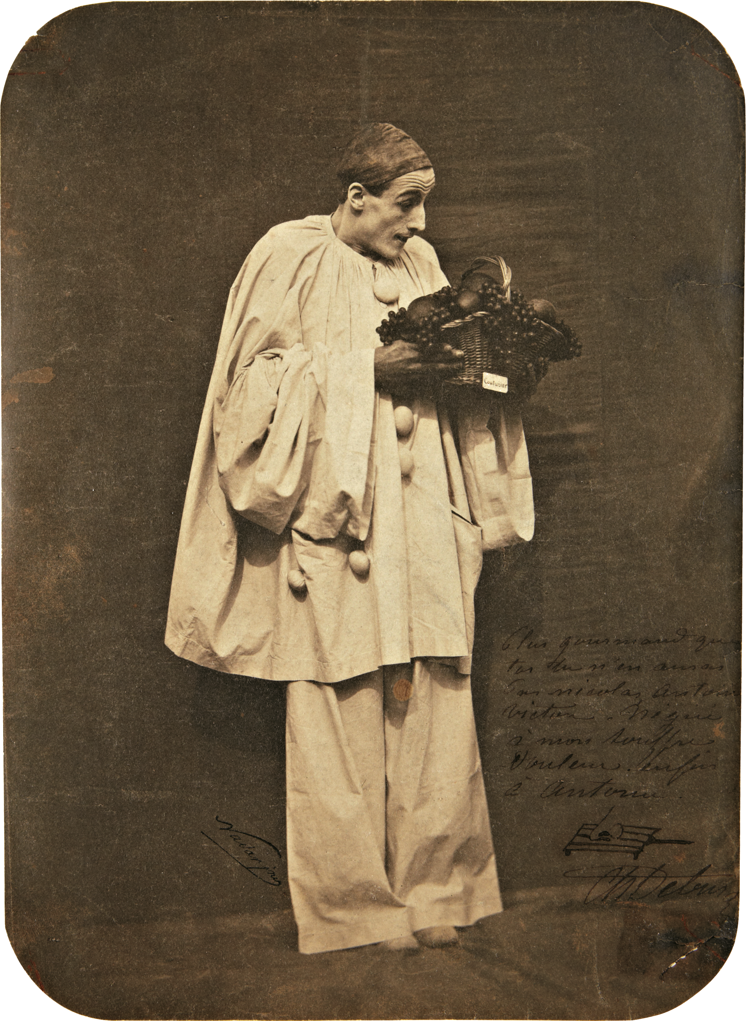 Charles Deburau as Pierrot with Fruit